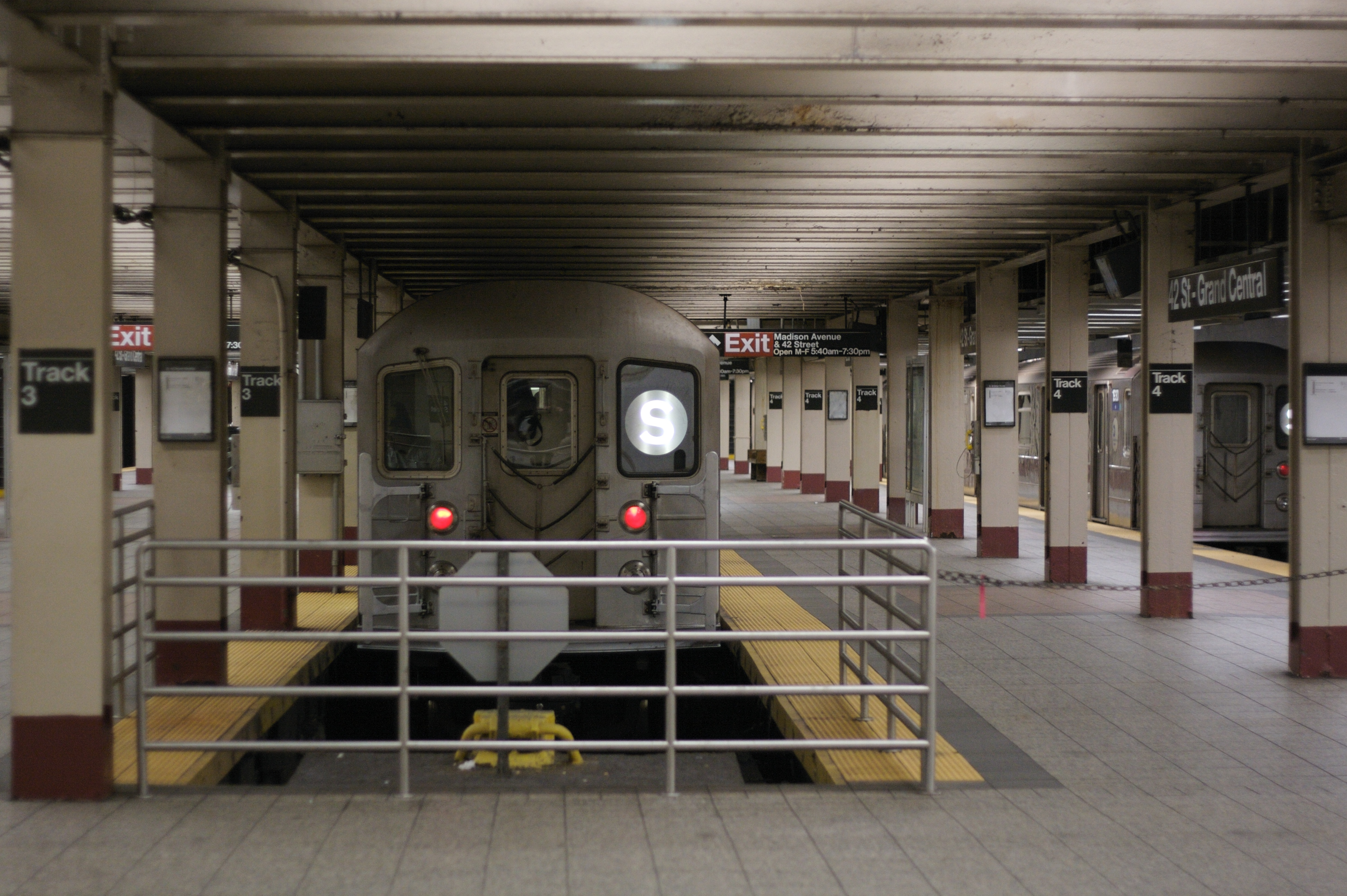 Times Square bound shuttles waiting at 42nd Street–Grand Central station platform.